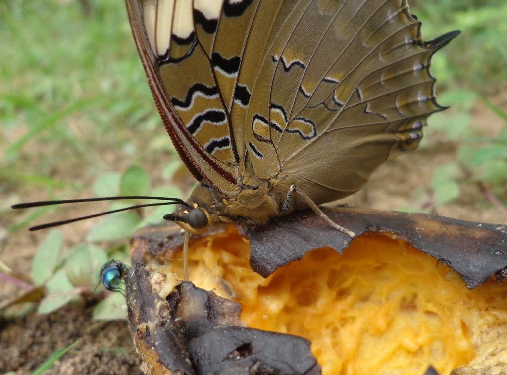 Charaxes tiridates, feeding on fermented plantain.